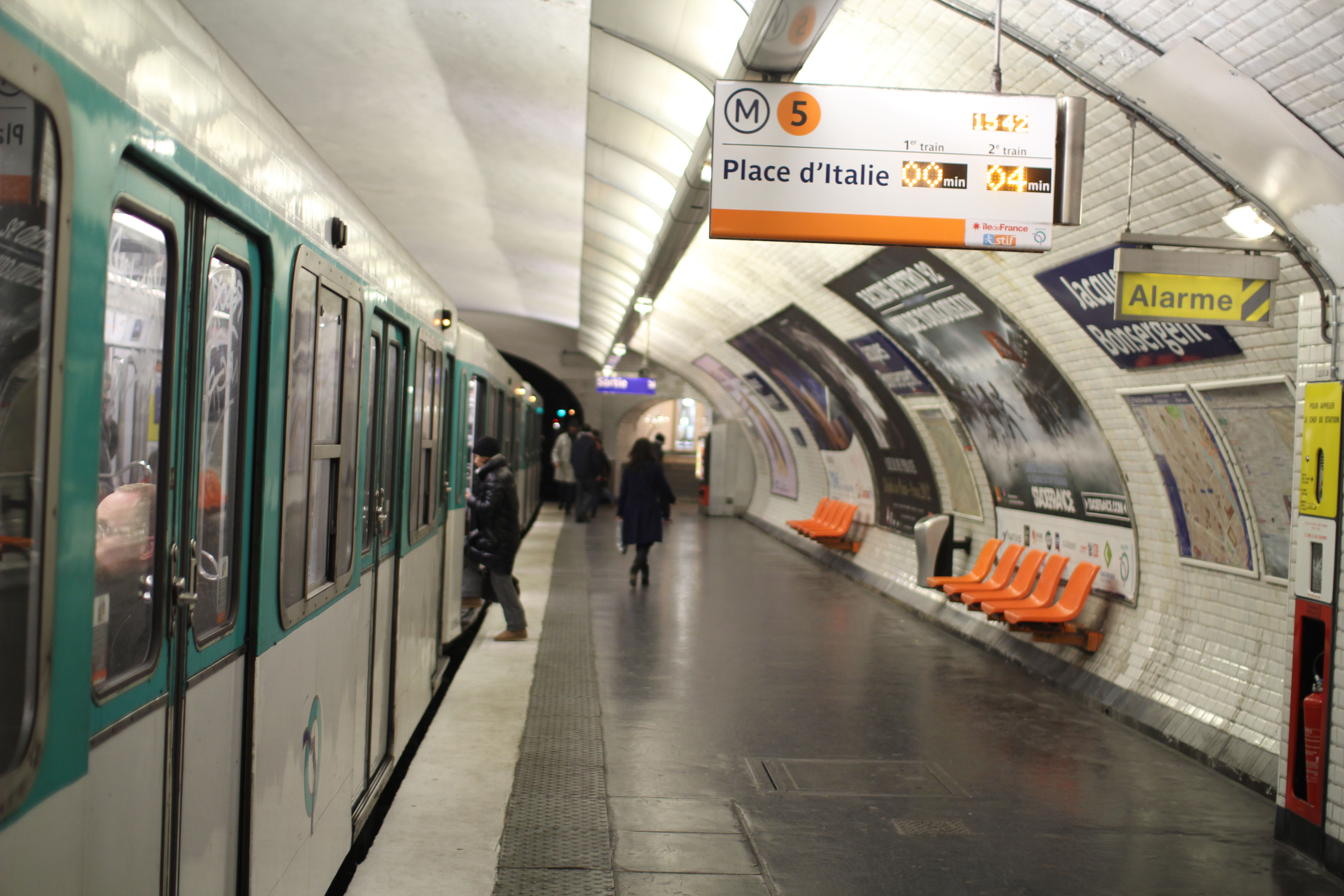 Metro station Jacques Bonsergent on Parisian metroline 5